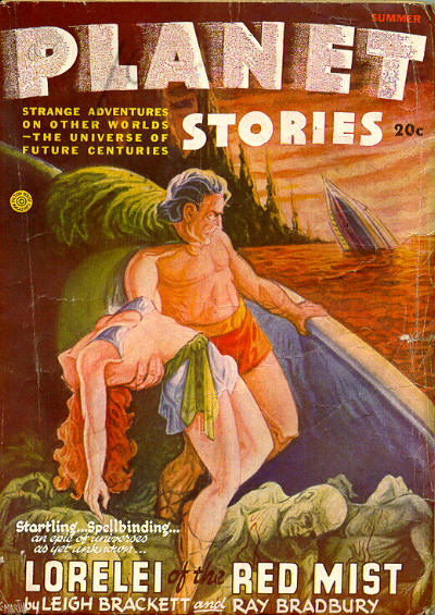 Cover of Planet Stories, Summer 1946